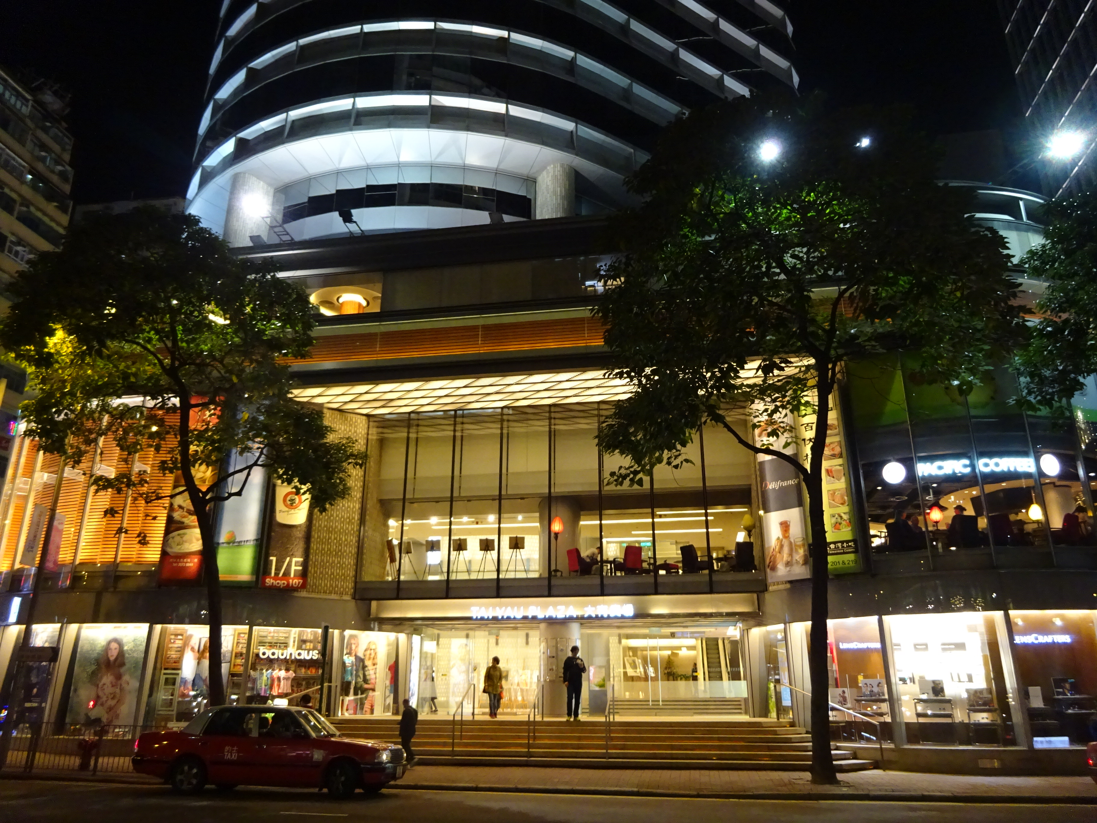 Tai Yau Plaza, Fleming Road, Wan Chai, Hong Kong